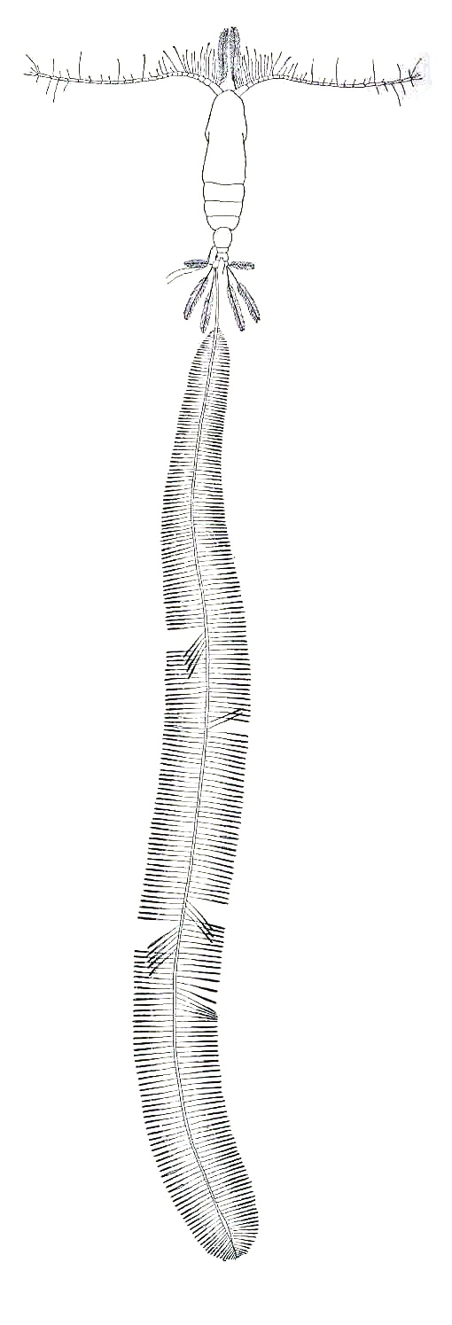 Calocalanus plumulosus (Claus, 1863) (Crustacea, Copepoda, Calanoida, Paracalanidae), female, dorsal aspect.